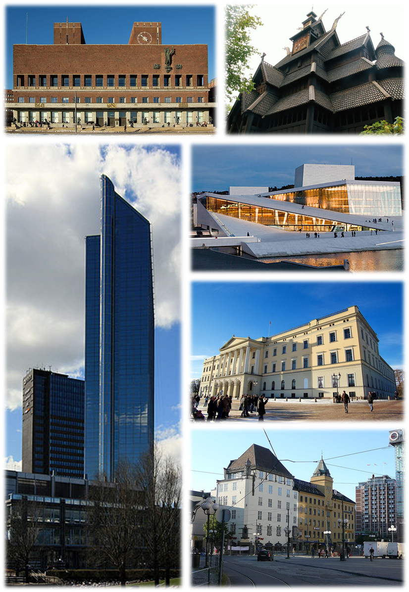 Collage of Oslo.